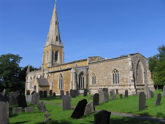 St Luke's parish church, Gaddesby, Leicestershire, seen from the southeast